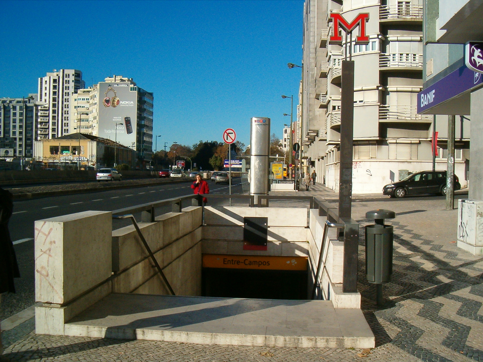 Metro station Entre Campos (Lisboa)